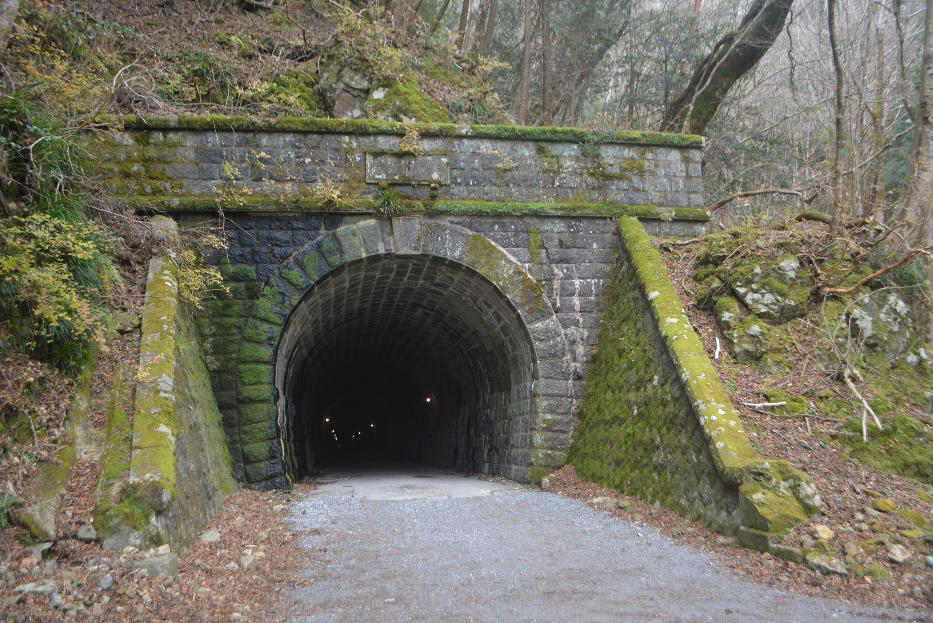 Old Amagi tunnel Izu city side entrance.Izu city. Opened in 1905. Extension 446m